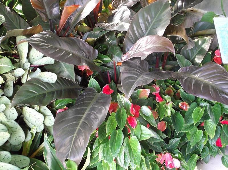 Philodendron 'Rojo Congo' (Araceae) in Kew Gardens, England.